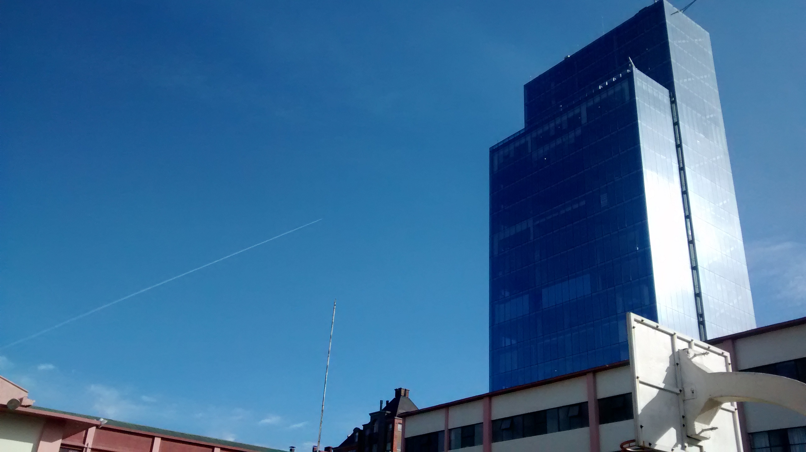 Capital building, in Temuco city, Chile.